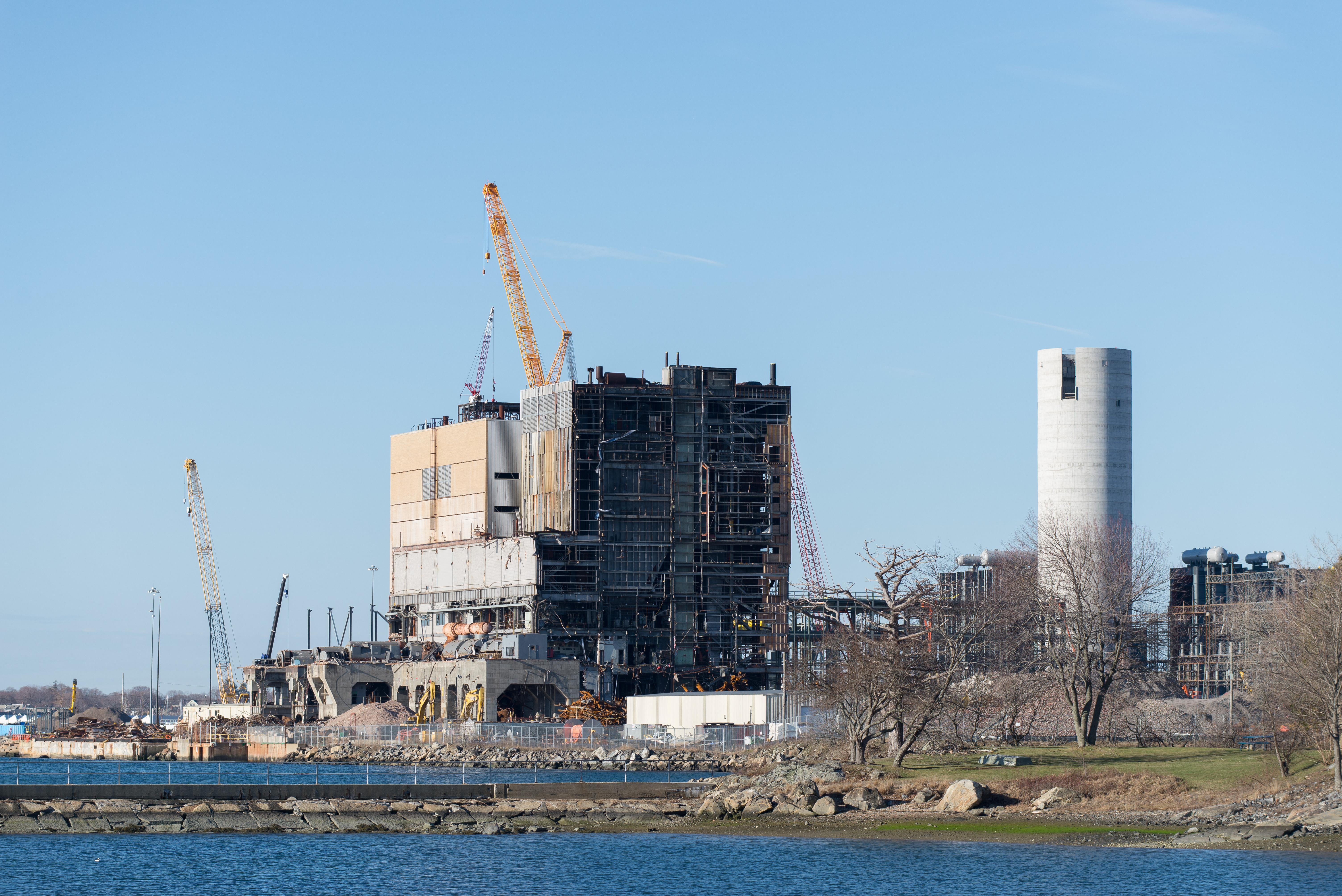 New smokestack construction and demolition of old coal plant underway in Salem, Massachusetts